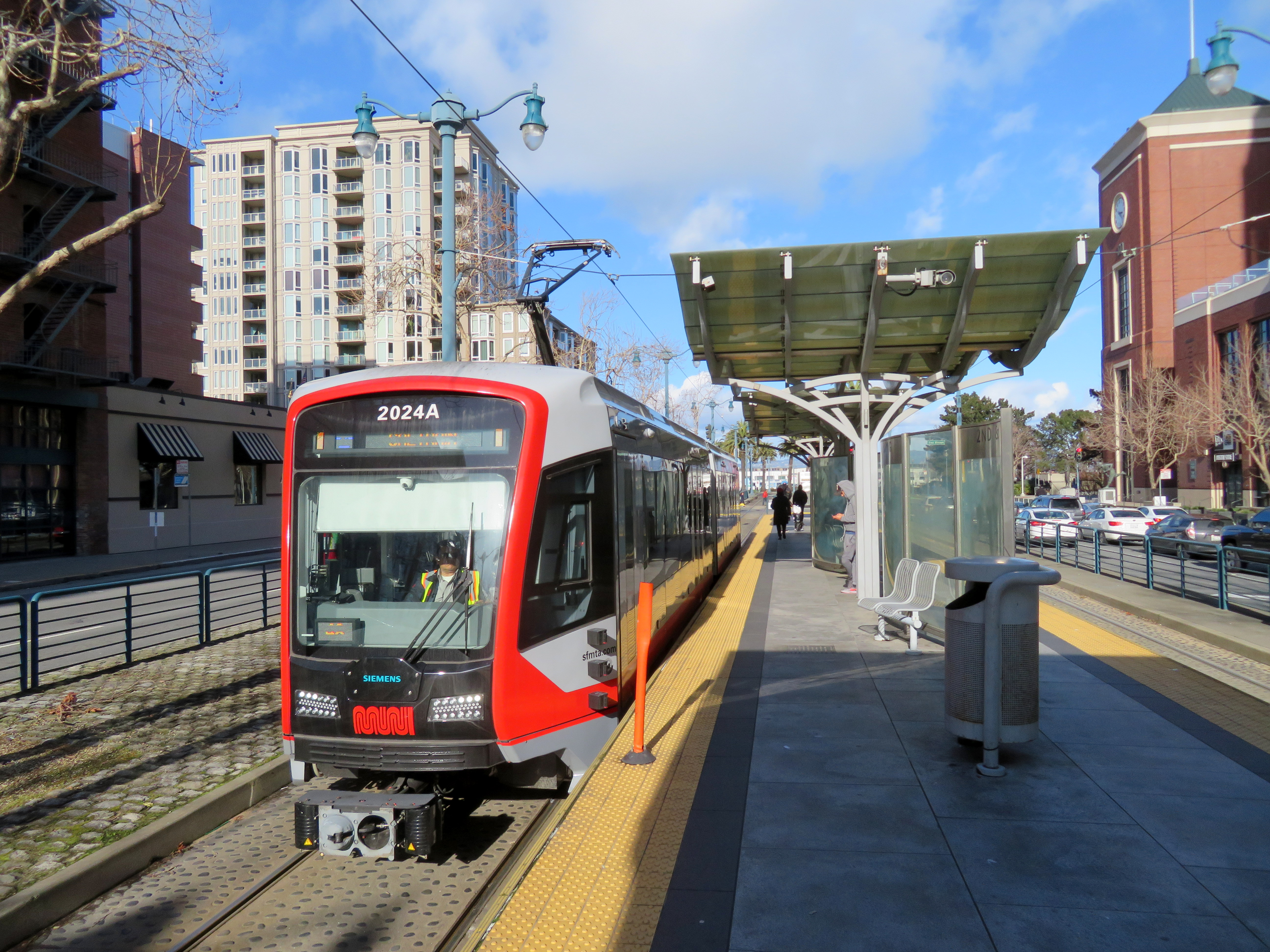 A Caltrain-bound N Judah train at 2nd and King station in February 2019